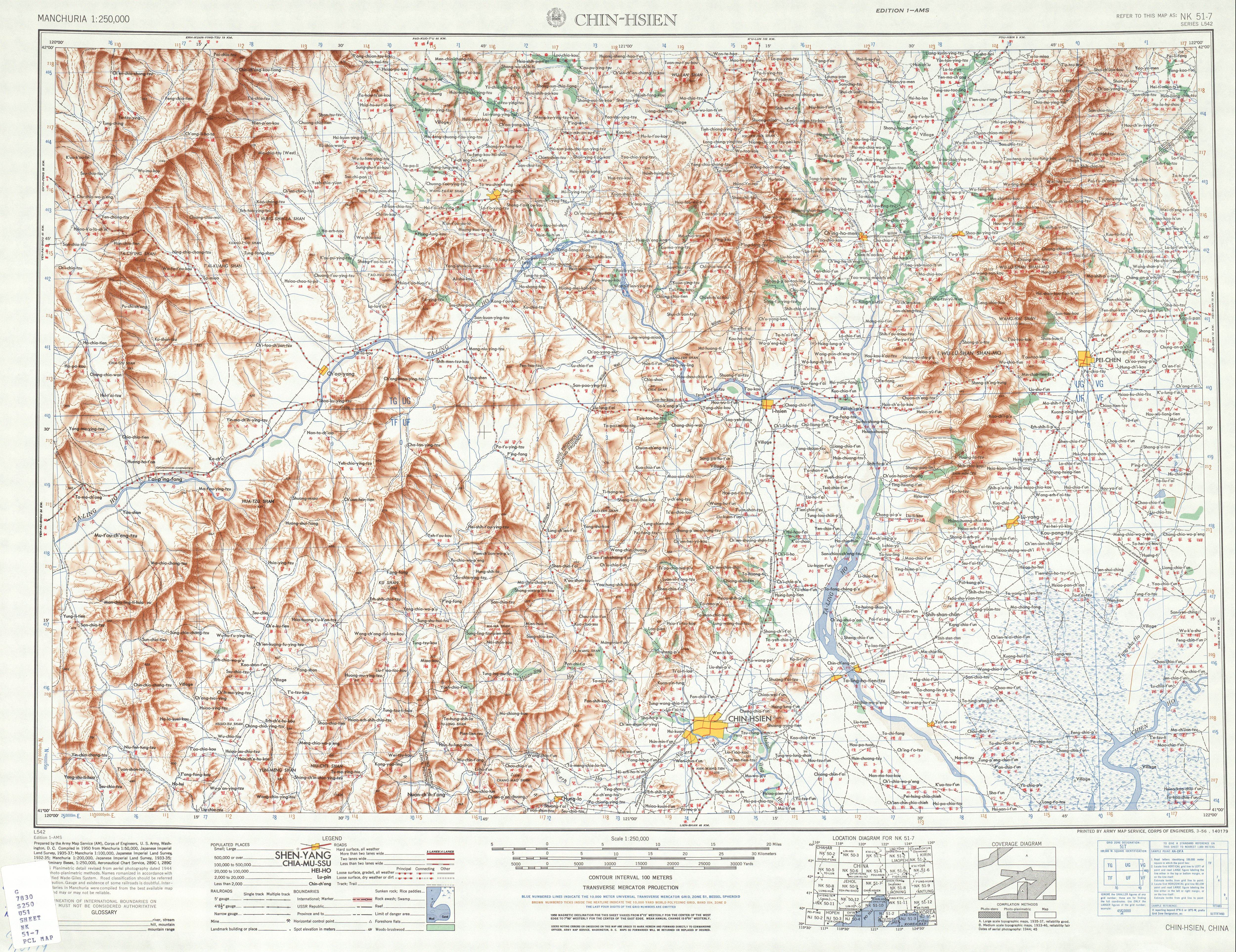 Manchuria AMS Topographic Maps